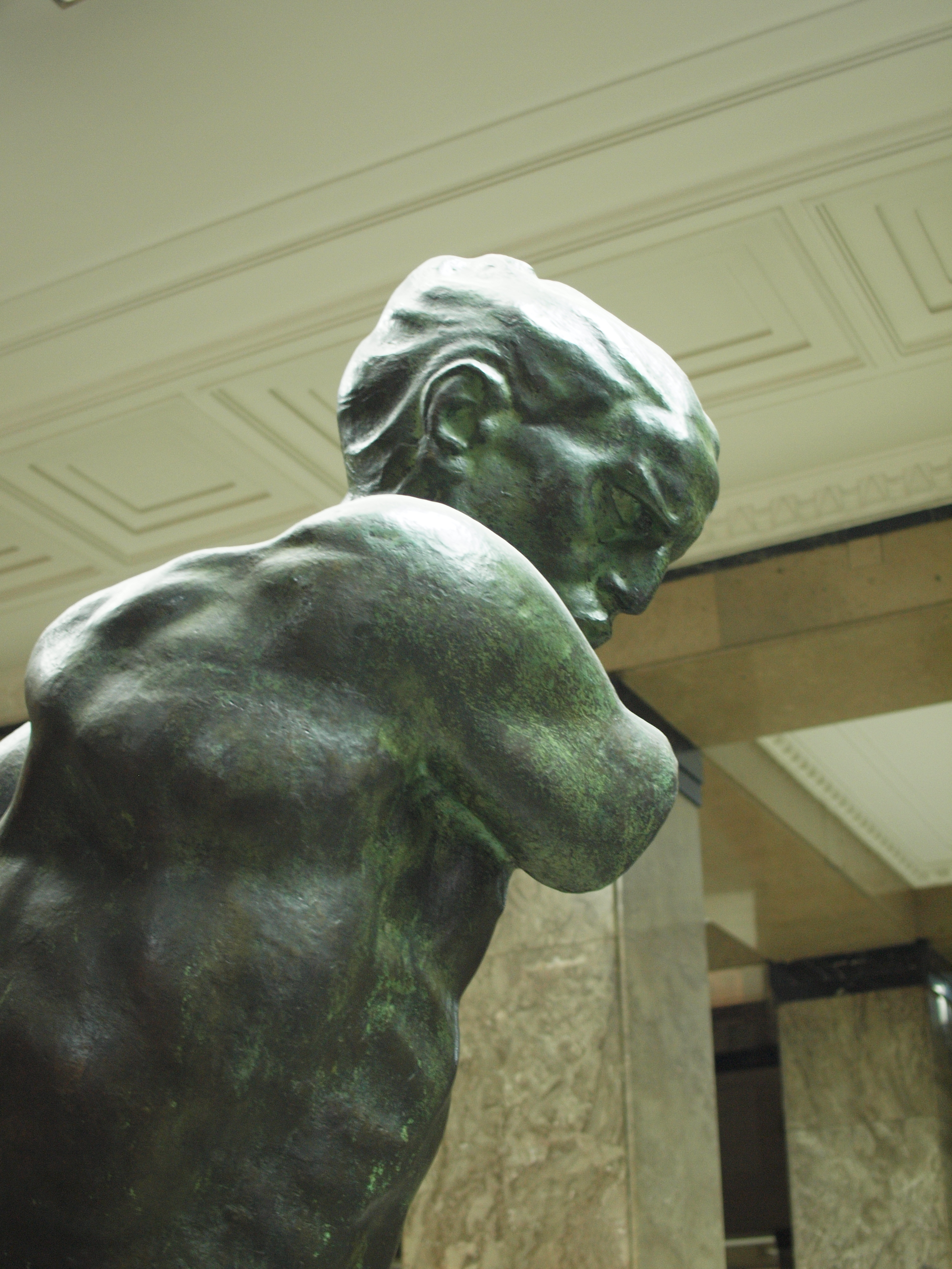 Milos Obilic Ivan Mestrovic National Museum Serbia Belgrade